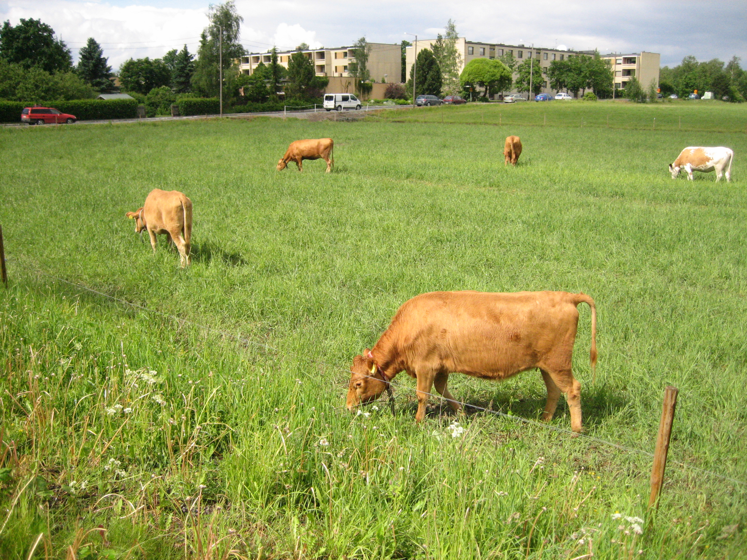 Finnish native cattle grazing on a field in Tampere.